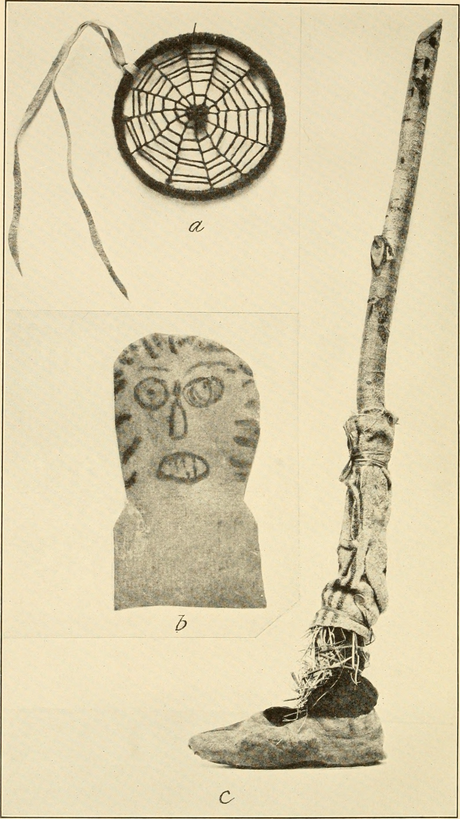 Title: Bulletin Year: 1901 (1900s) Authors: Smithsonian Institution. Bureau of American Ethnology Subjects: Ethnology Publisher: Washington : G. P. O. Text Appearing Before Image: BUREAU OF AMERICAN ETHNOLOGY BULLETIN 85 PLATE 24 Text Appearing After Image: a, "Spider web" charm, hung on infant's cradle; 6, Mask used in game; c, "Ghost leg, to frighten children